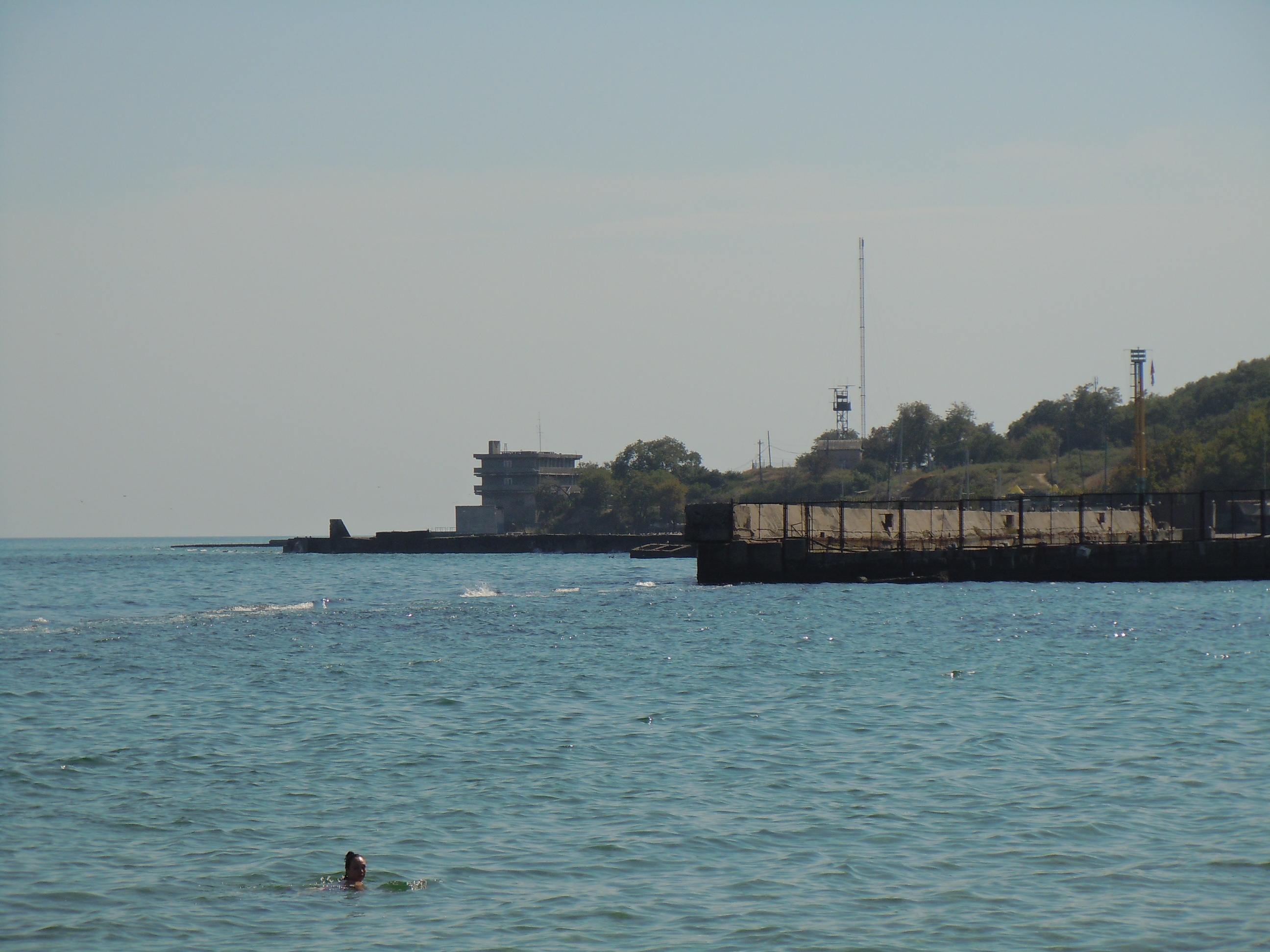 View to the Cape Small Fontan (Gulf of Odessa, Black Sea) from North